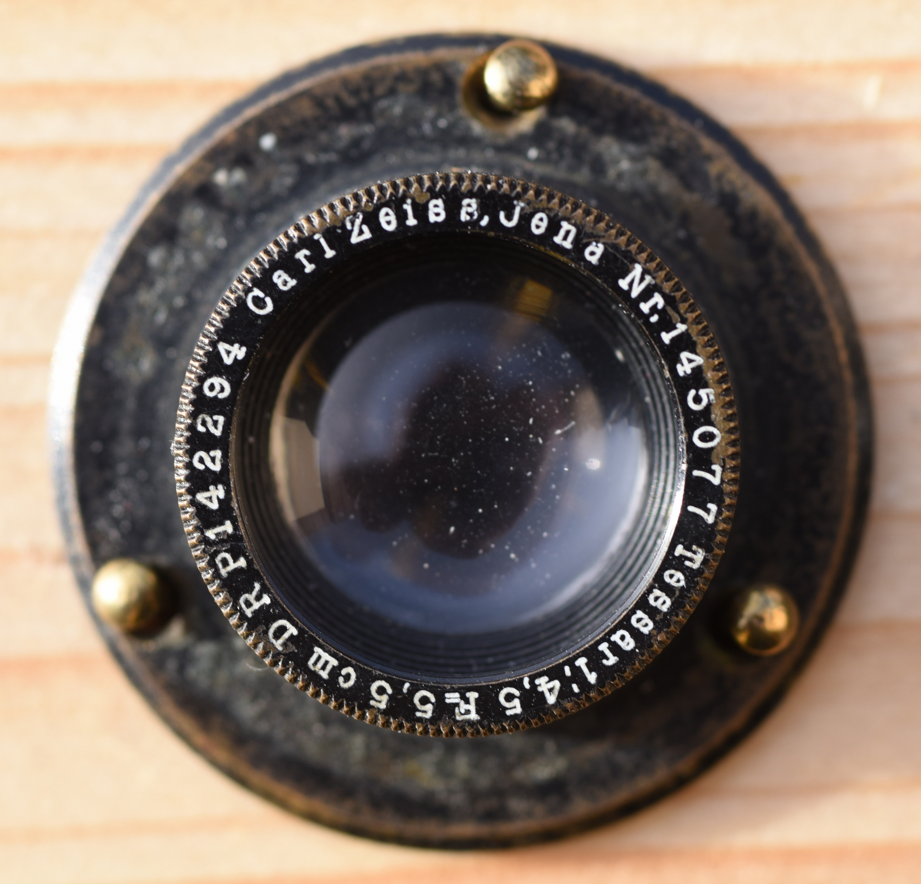 Lens Carl Zeiss, Jena, Nr. 145077, Tessar 1:4,5 F=5,5cm DRP 142294 (produced before 1910)